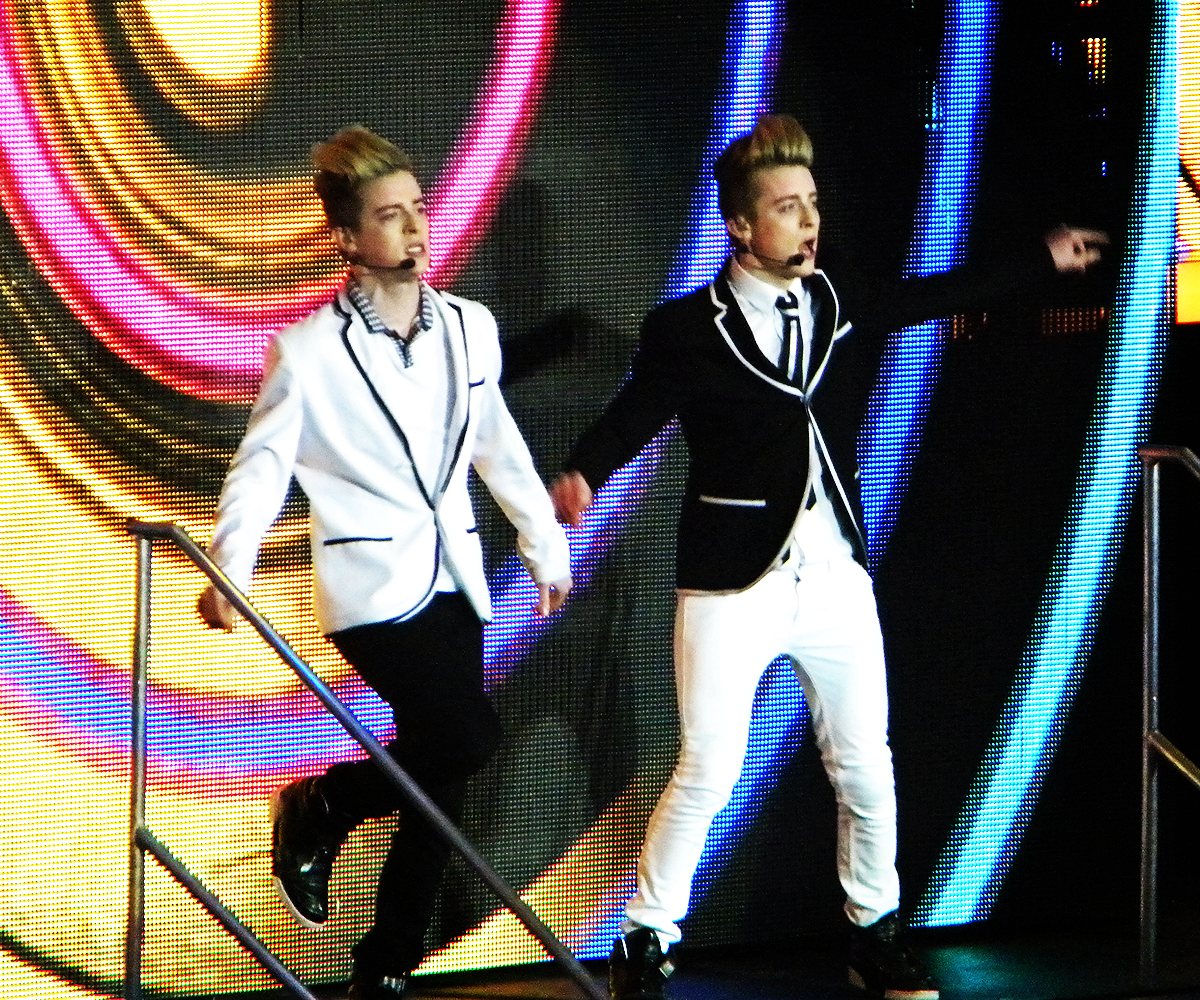 Jedward (aka John & Edward) performing live on the 20th March, 2010 as part of the UK X Factor 2010 tour